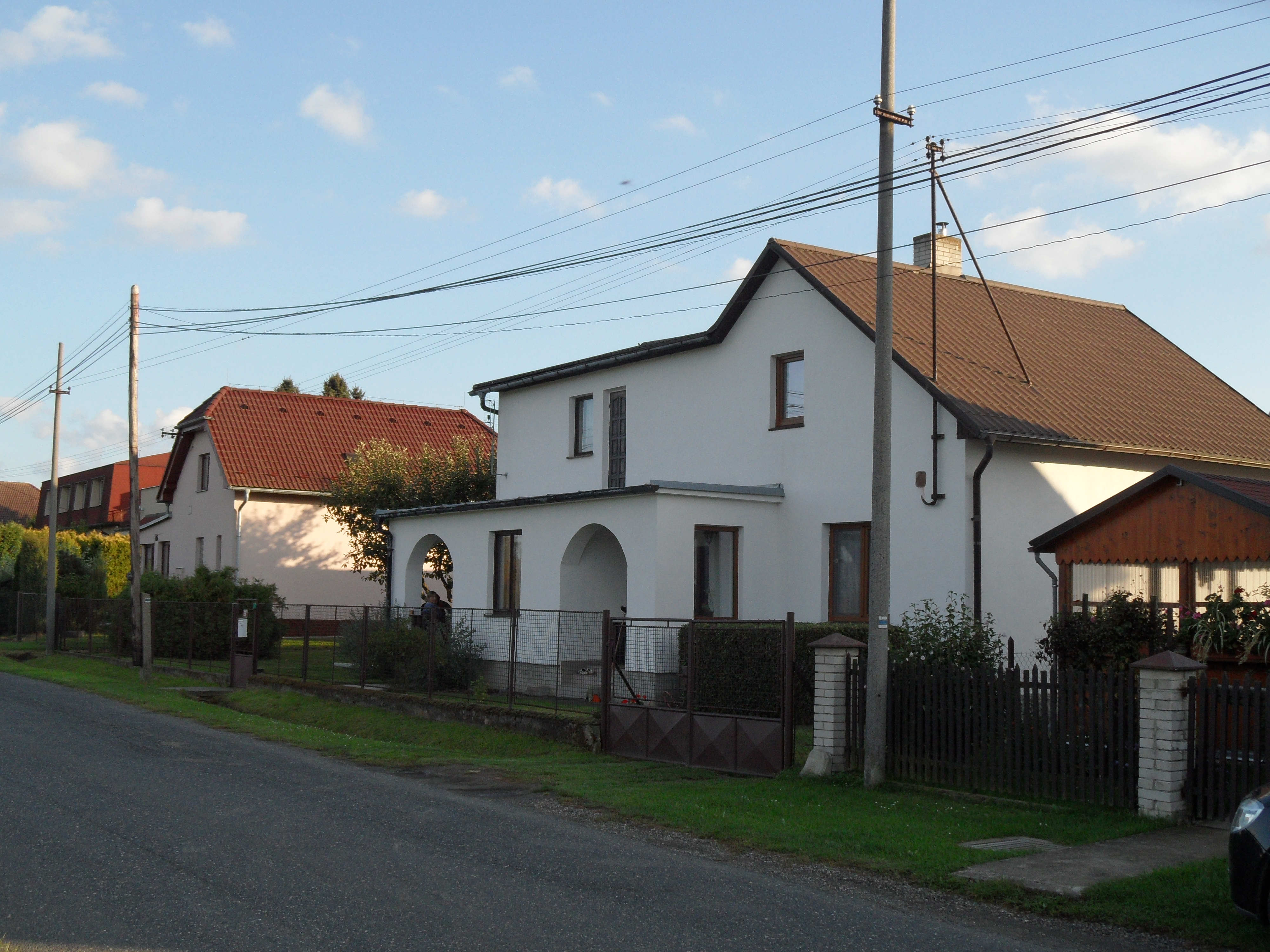 Horka II N. Family Houses along Main Road, Kutná Hora District, the Czech Republic.